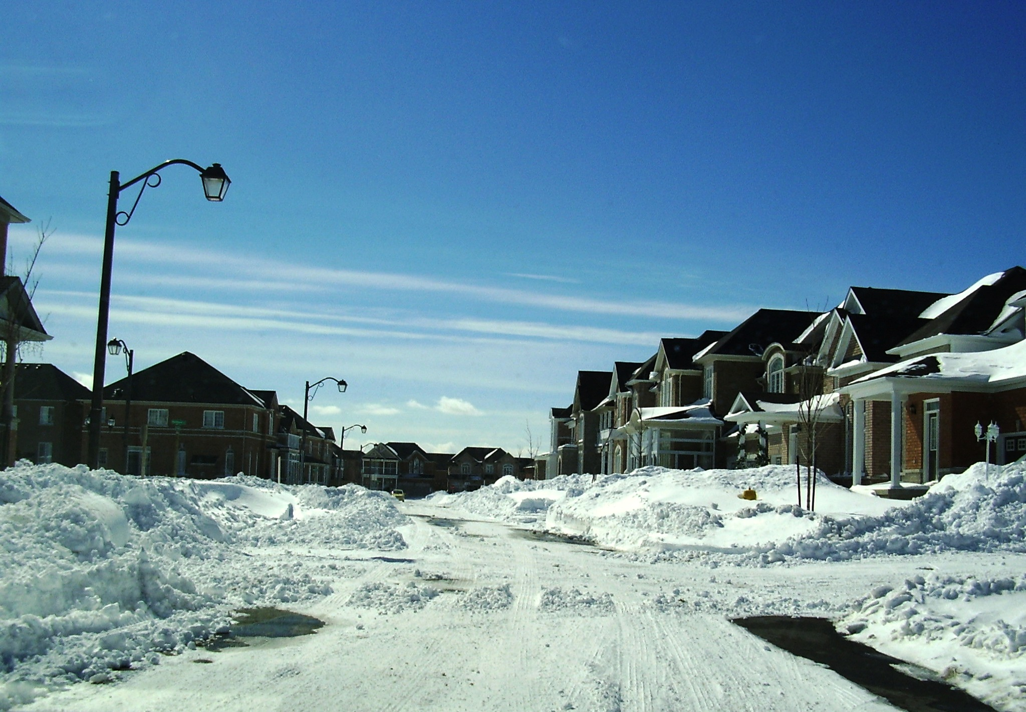 Markham Road with Snow March 8 2008